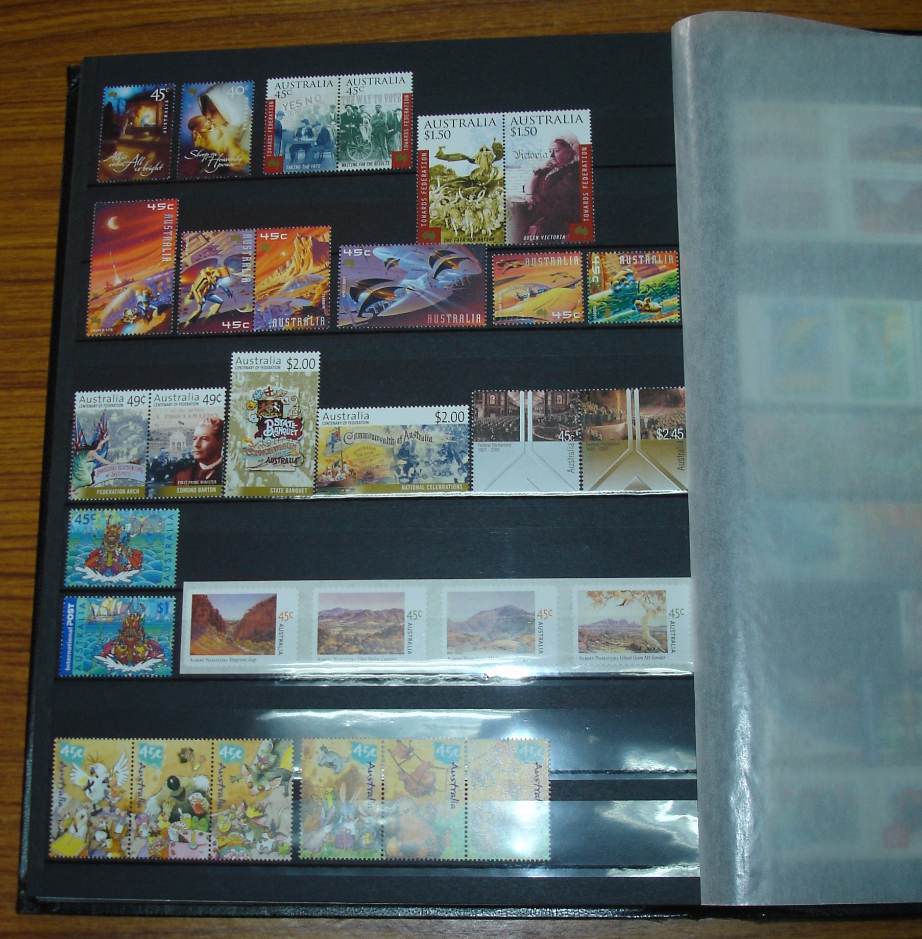 Photo of the inside of a stamp stock book containing mint Australian stamps